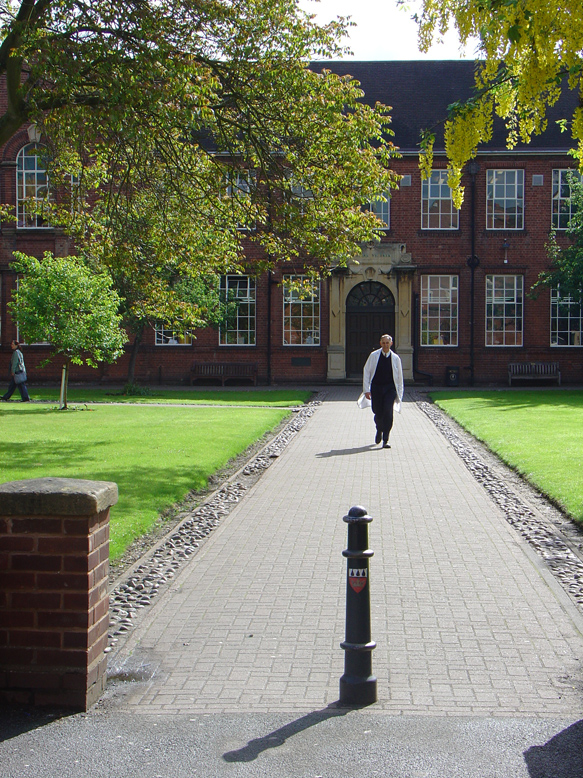 "Long walk", Royal Grammar School Worcester.